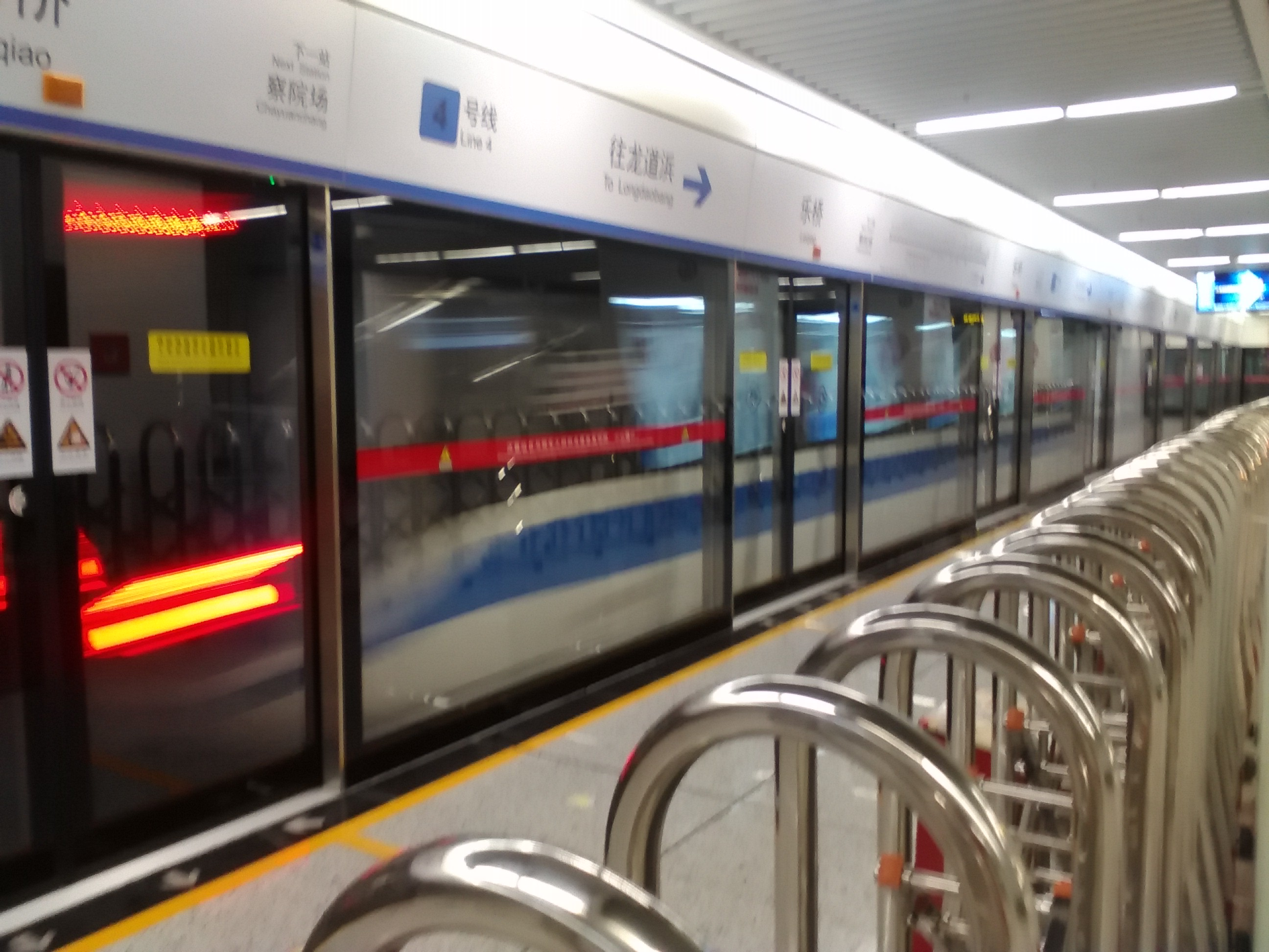 Line 4 train was going out at Leqiao Station 中文（中国大陆）: 苏州轨道交通4号线列车驶出乐桥站。